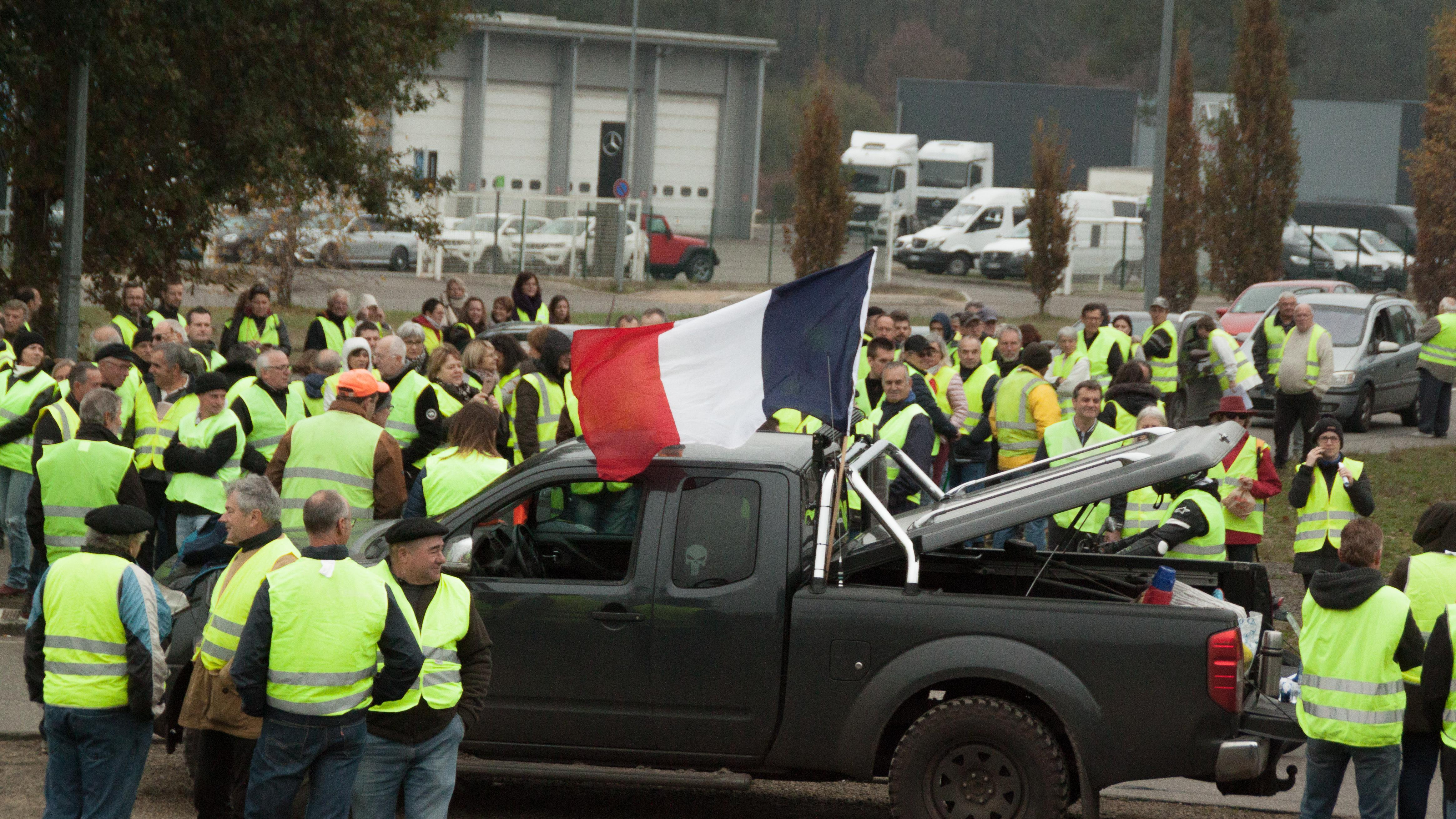 Nationalism